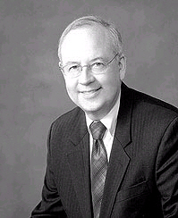 Ken Starr, former U.S. Solicitor General and President of Baylor University